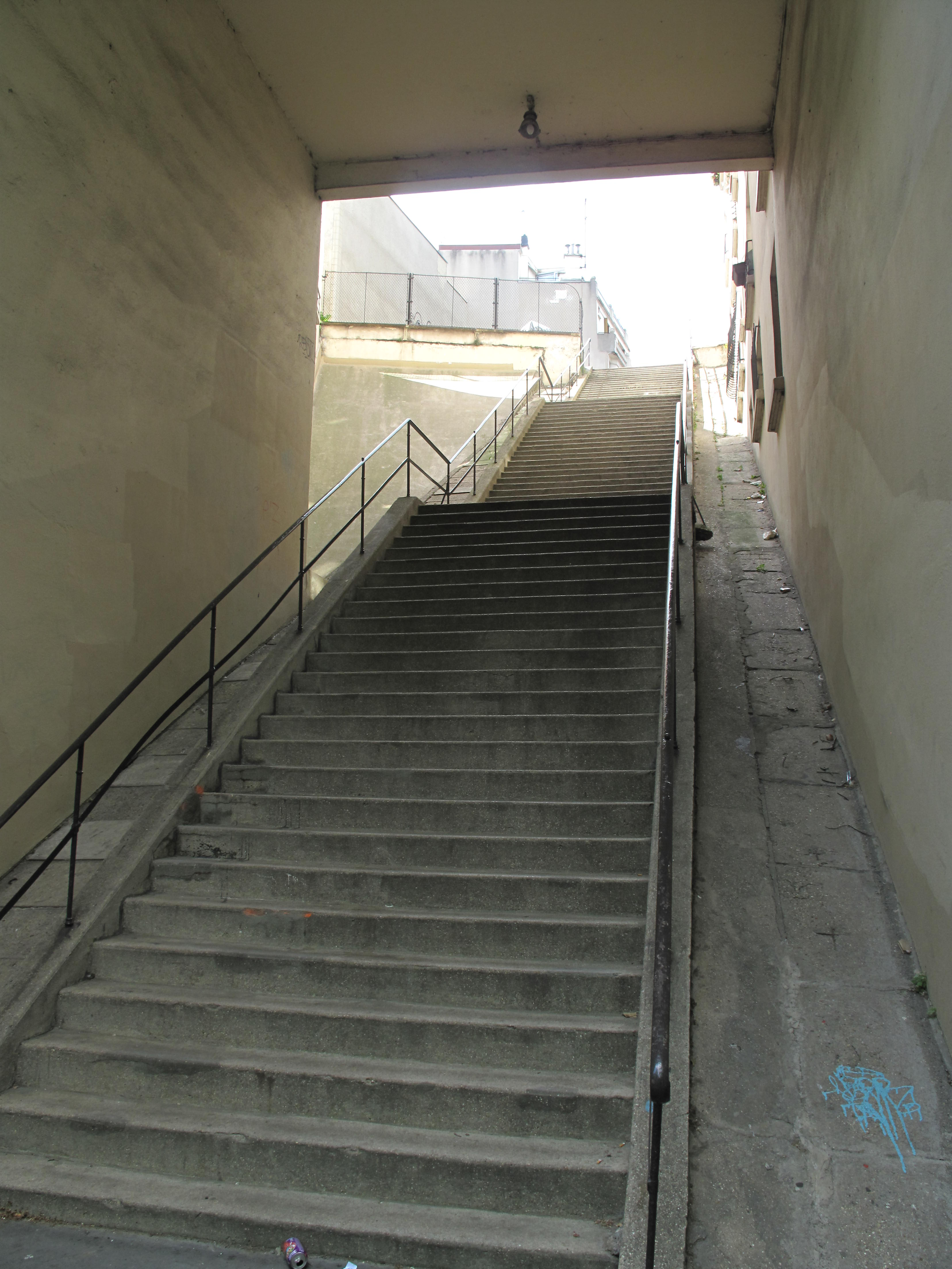 Stairs to reach the small hill "butte Bergeyre". It links the rue Manin downside to the rue Barrelet-de-Ricou at the top of the butte, Paris 19th arr.